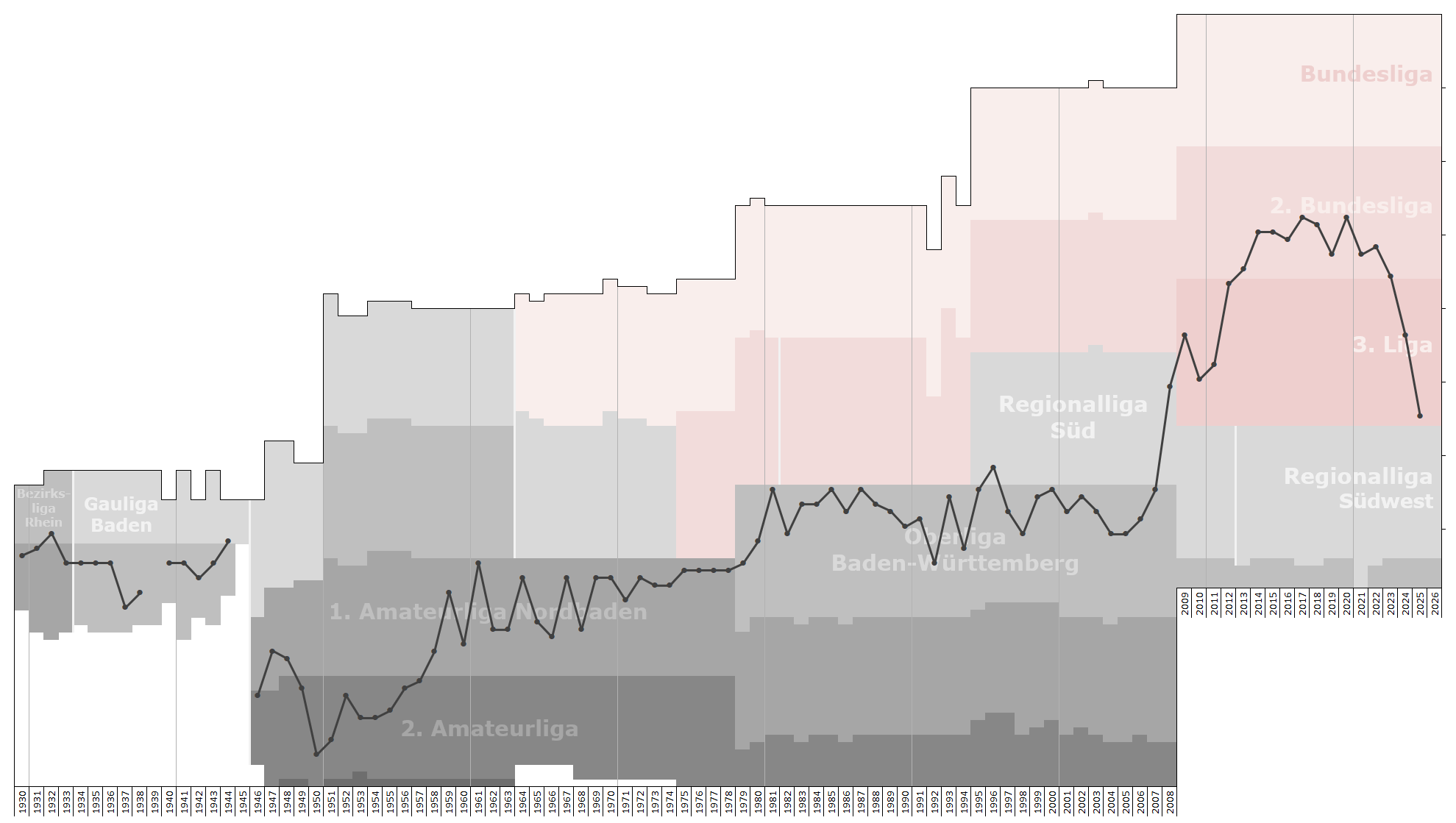 Chart of end-season table positions of SV Sandhausen in the football league system of Germany. Data source: RSSSF, wikipedia, f-archiv.de, fussball.de